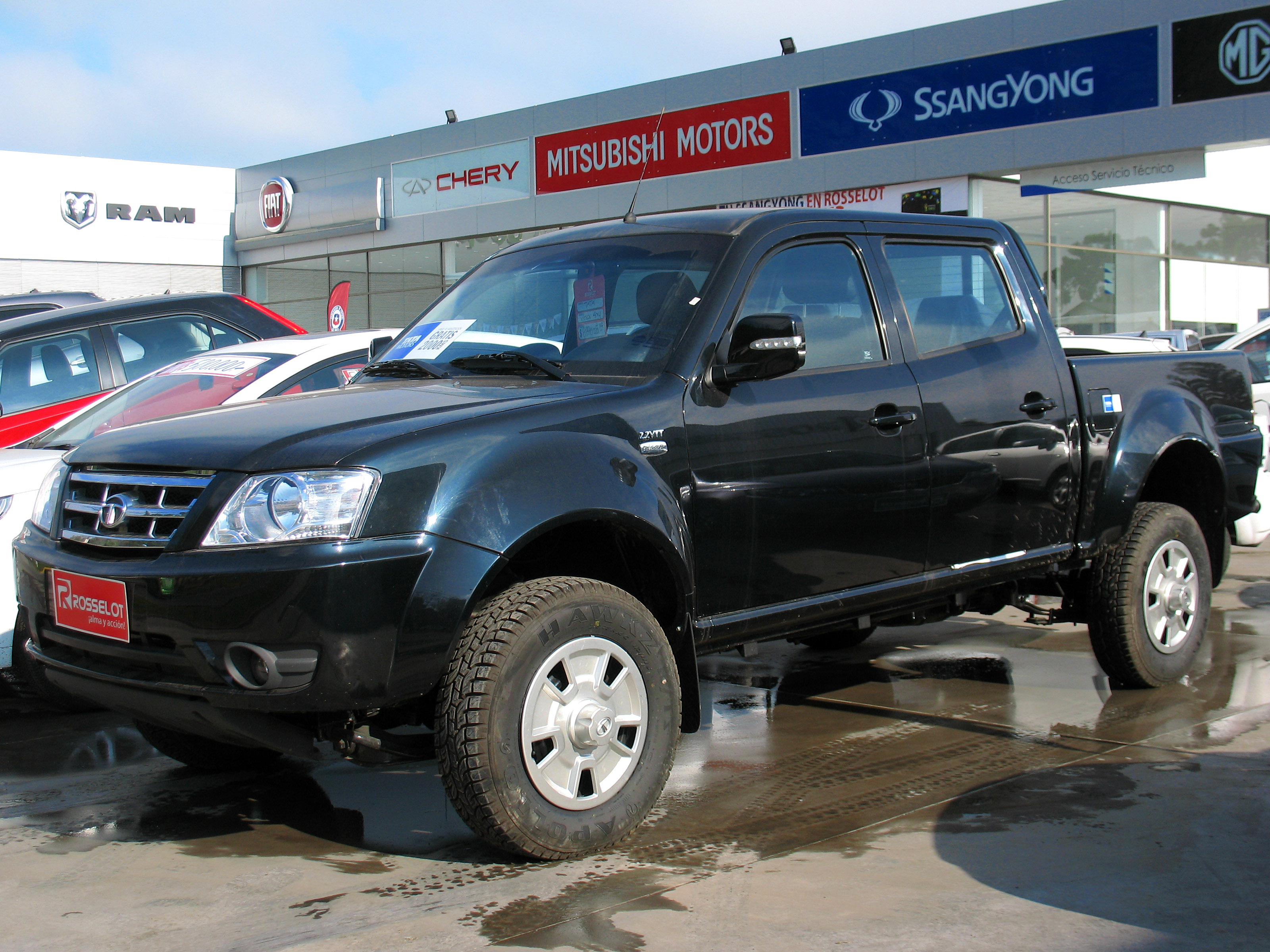 Tata Xenon DLE 2.2 Crew Cab 4x4 2014